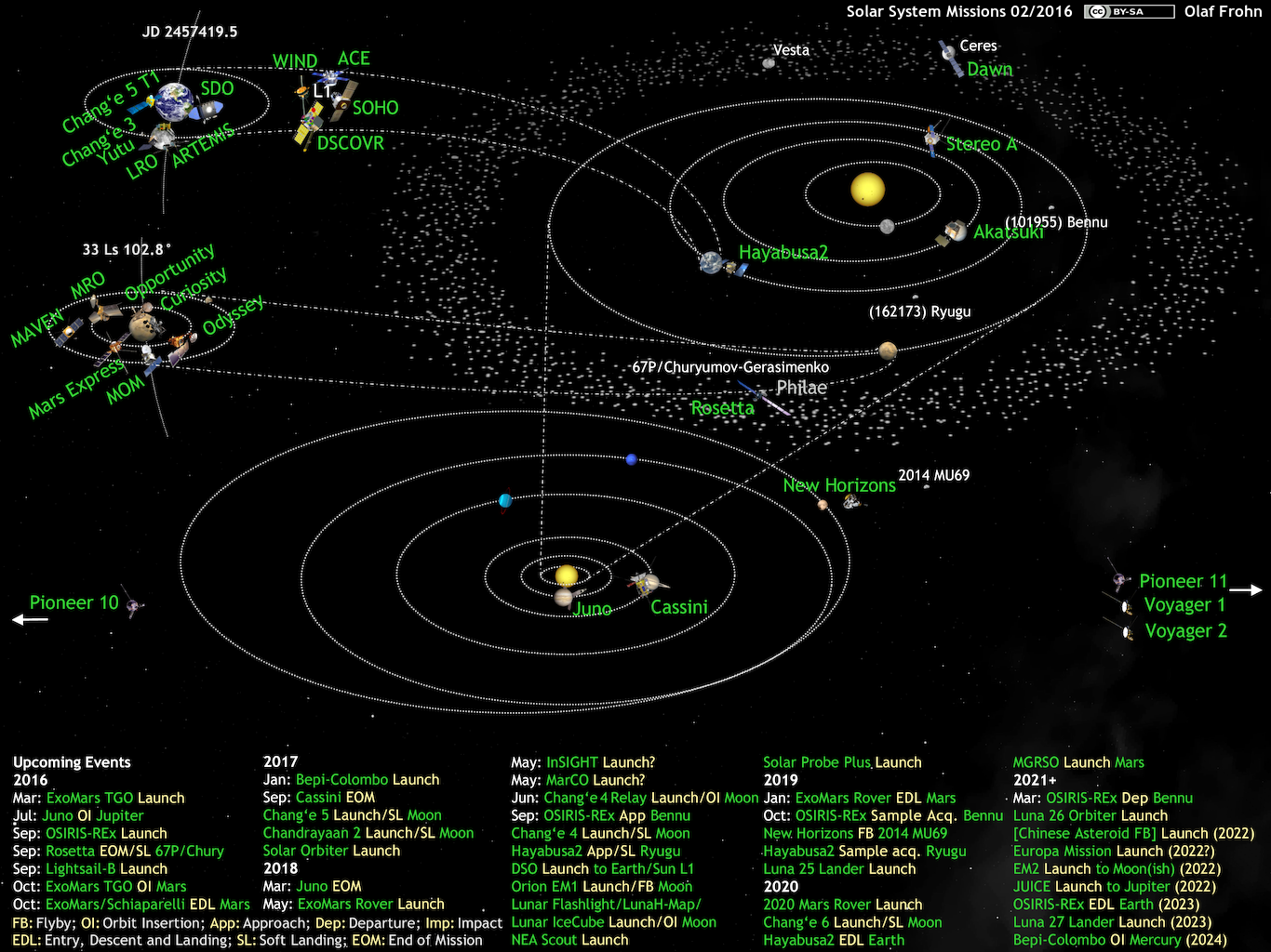 Solar system missions extant as of February 2016.